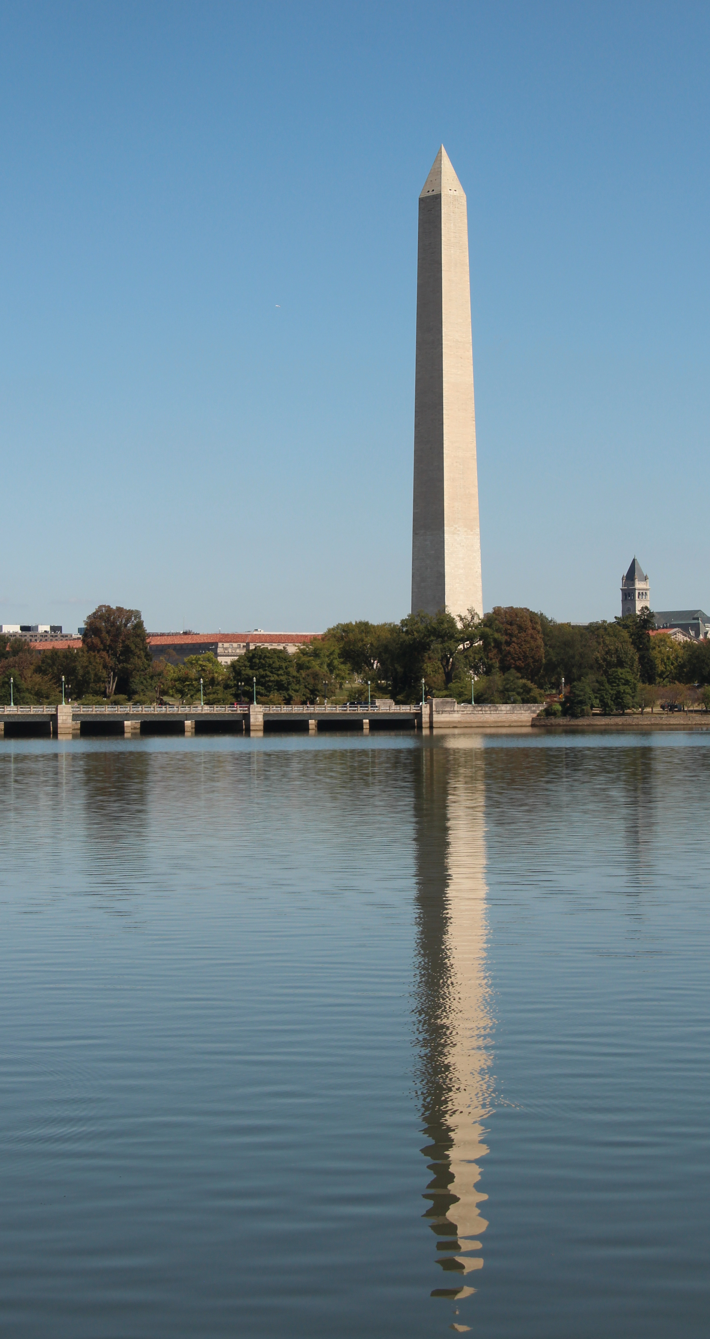 Reflection of Washington Monument in Washington D.C.